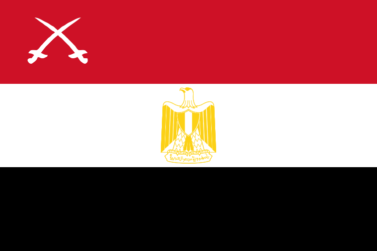 War Flag and Army Standard of Egypt Mde myself, from design on FOTW